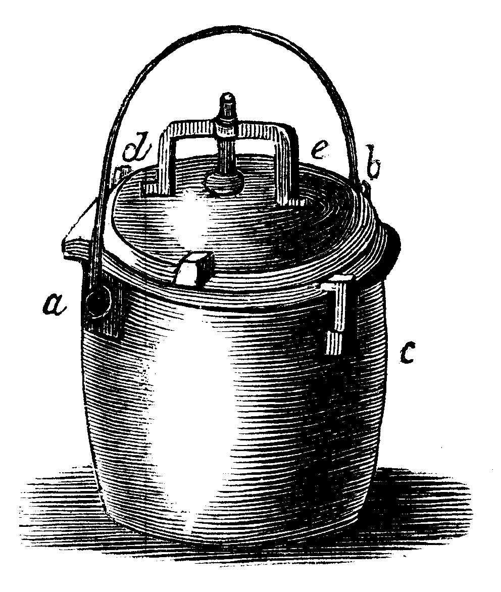 Pressure cooker from tinned cast iron, made by Georg Gutbrod in Stuttgart, Germany. According to the article, the process of tinning cast iron was a trade secret at the time, and the factory of Georg Gutbrod in Stuttgart was the only firm that could deliver pressure cookers in tinned cast iron. Other firms sold pressure cookers made from copper, plate, or untinned cast iron. Gutbrod offered pressure cookers in ten different sizes, sold in Sweden for between 3 and 20 riksdaler.